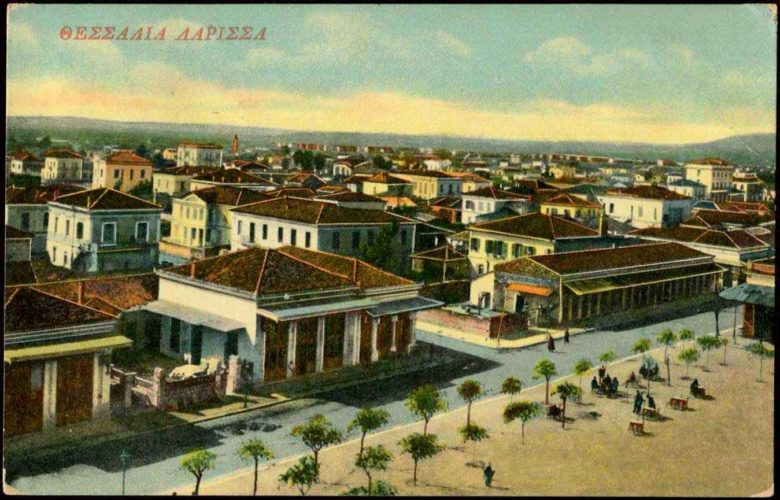 Postcatd of Larissa in 1910, Alexandras Street